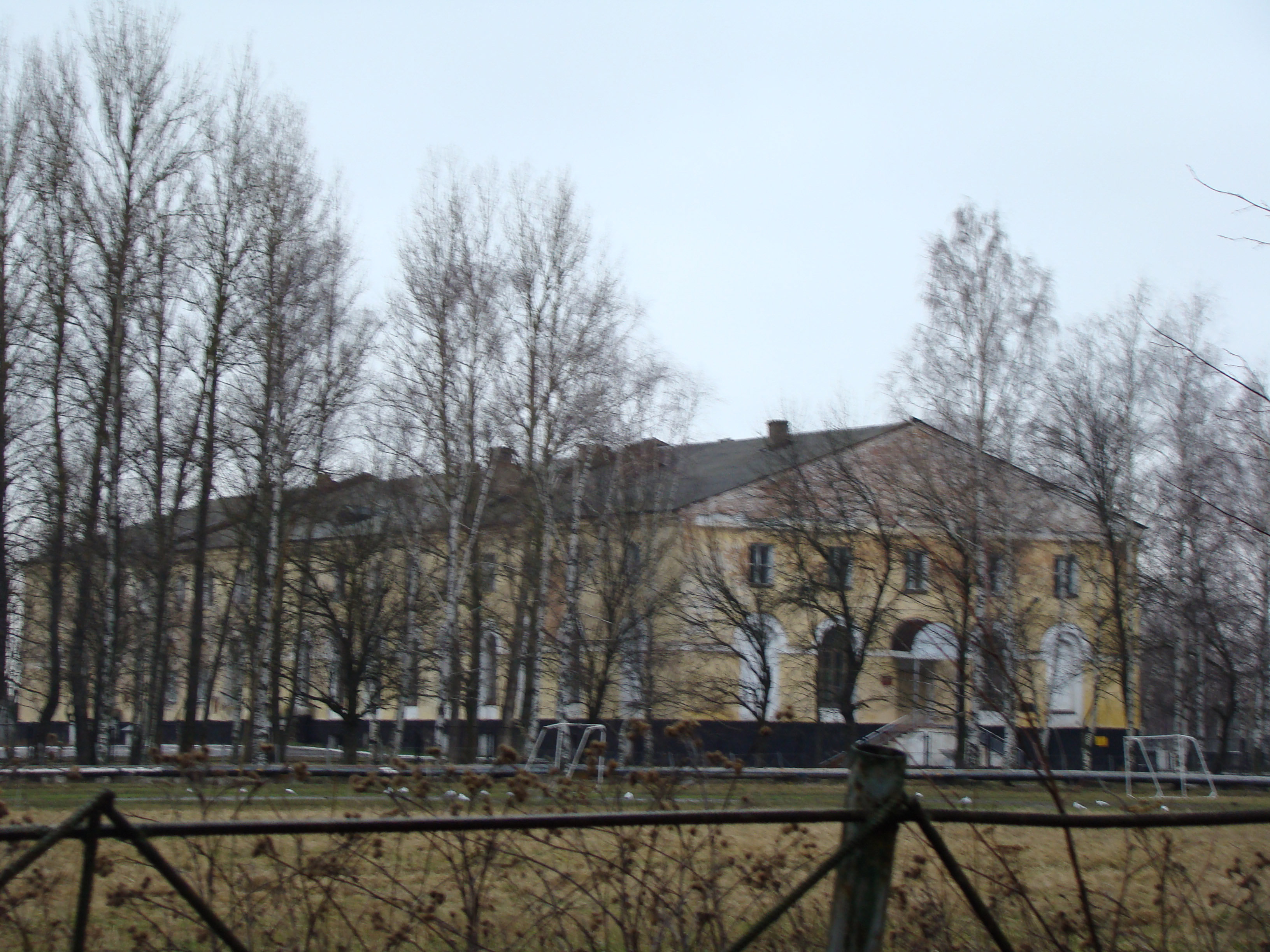 Krechevitsy, Arakcheyev Barracks